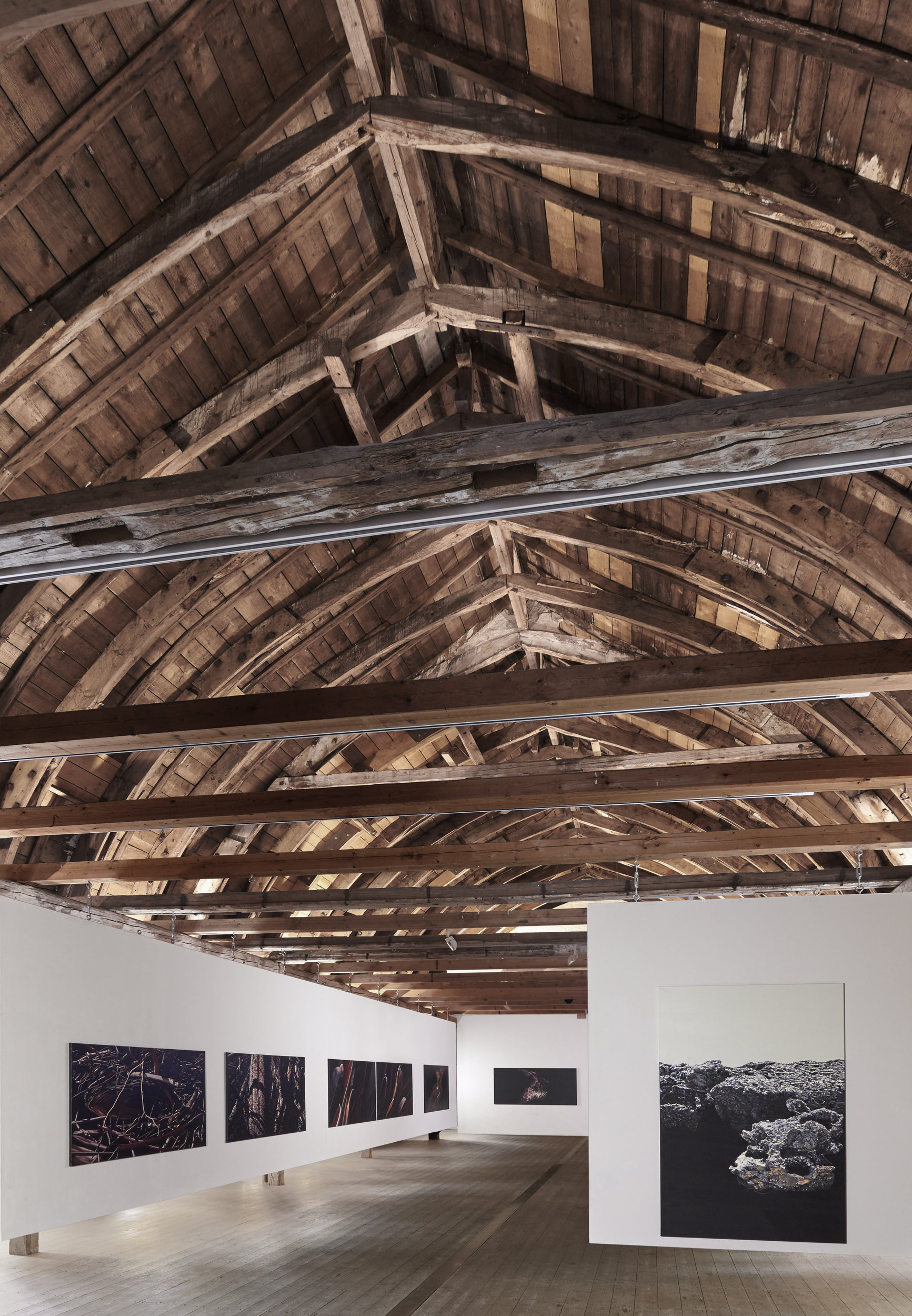 View of the upper floor of the art building in Bodenburg